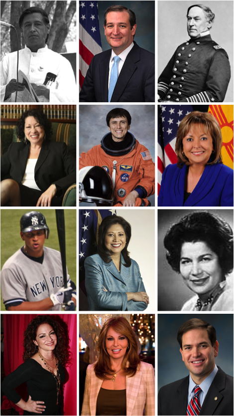 This is a image montage of famous Hispanic and Latino Americans. All the images used in the montage are from Wikipedia commons and licensed photographs. I am the creator of this work.